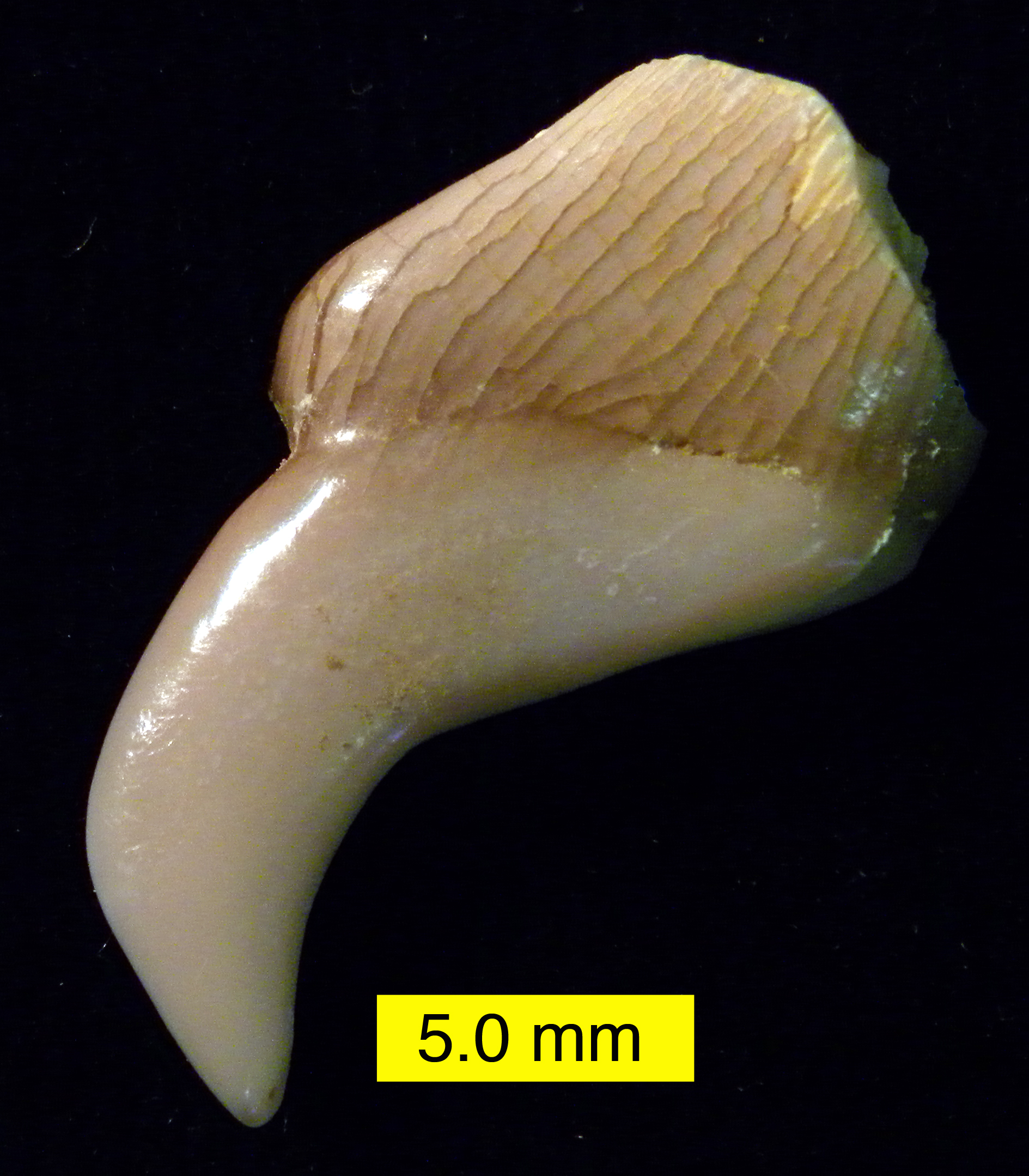 Hadrodus prisca tooth, Menuha Formation (Upper Cretaceous), southern Israel. Collected by Andrew Retzler.